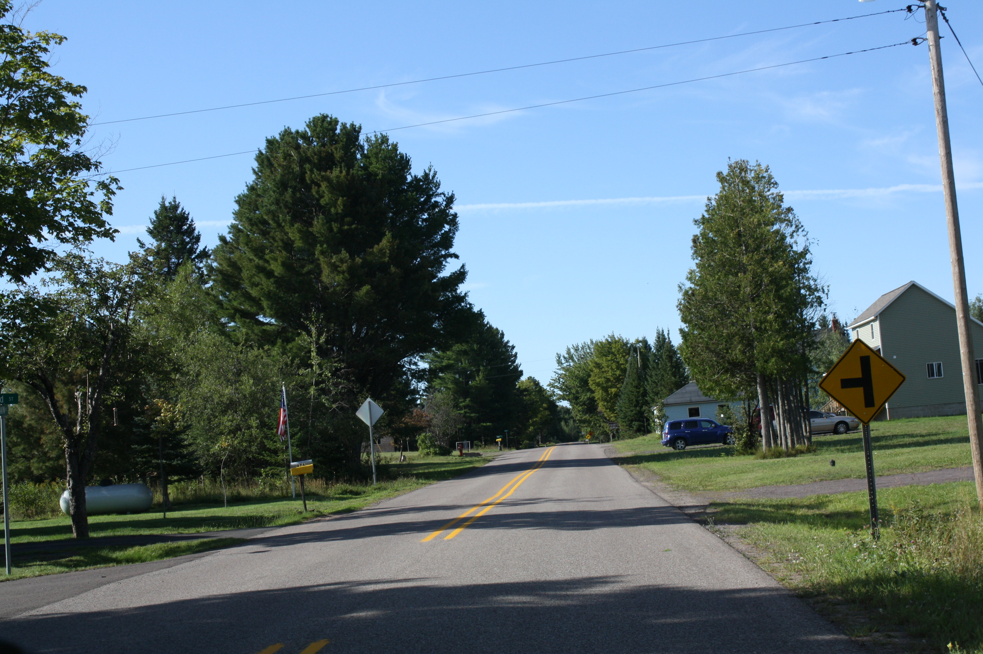 Looking at downtown Gay, Michigan.